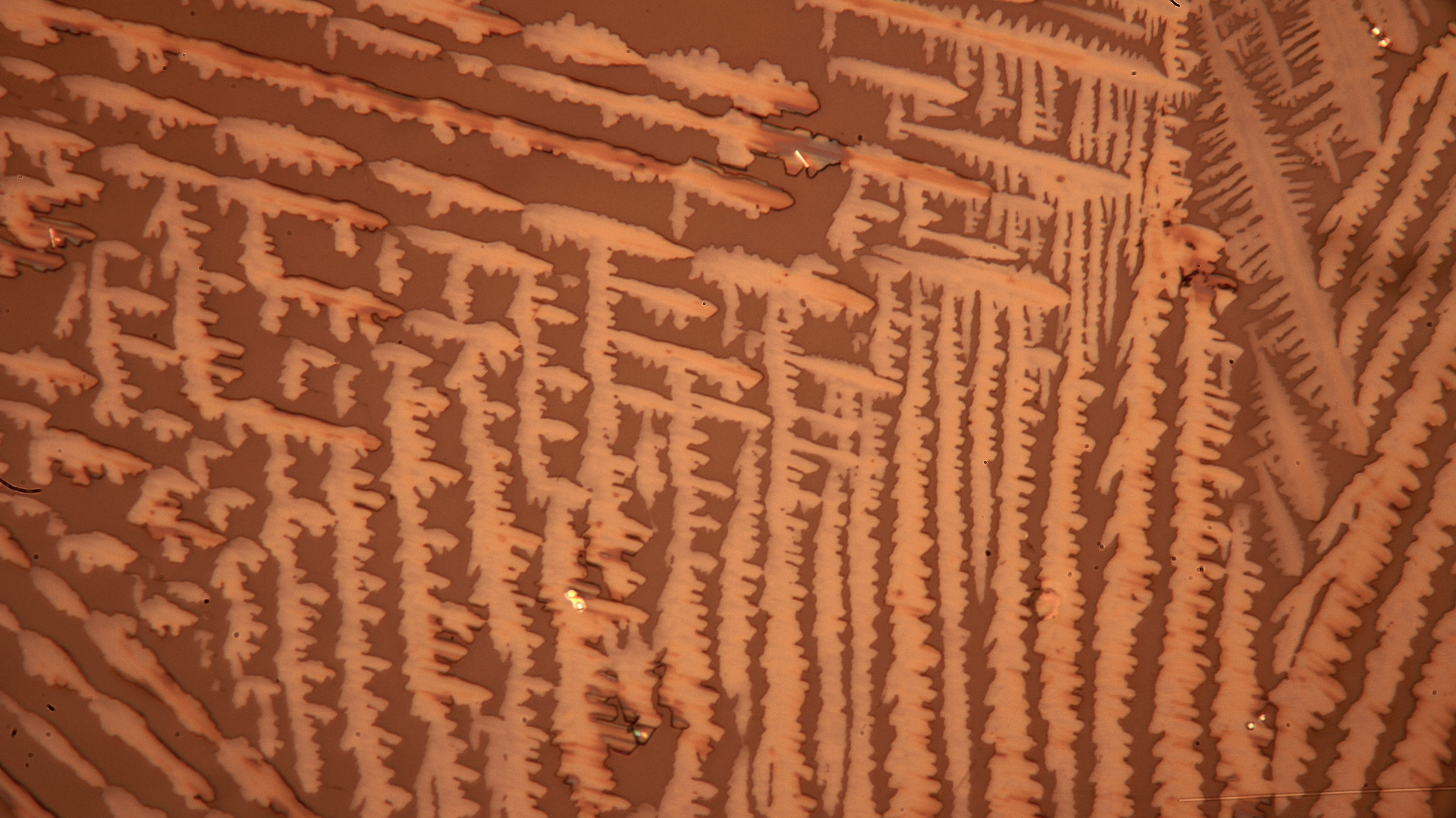 hydroquinone grows on substrate via slow evaporation of solvent